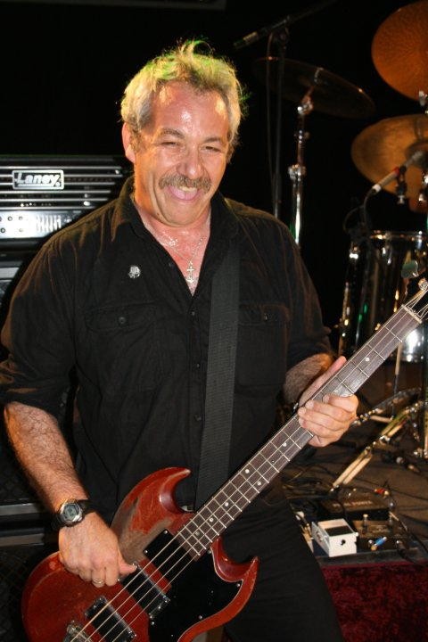 Bassist Mike Watt performing with Iggy and the Stooges at Matt Groening's ATP Festival, Minehead, UK in May 2010.